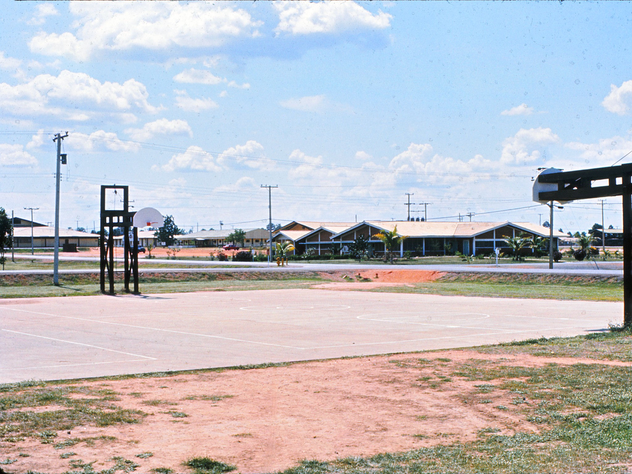 Camp Friendship - Basketball Court with Mess Hall